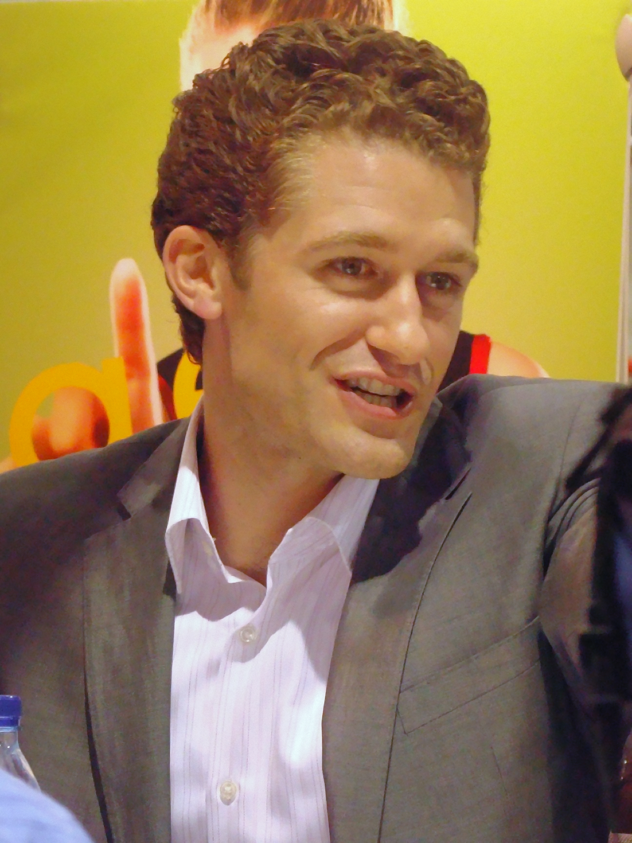 Matthew Morrison at Gaslamp, San Diego